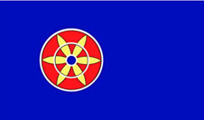 Kveenimaan flaku